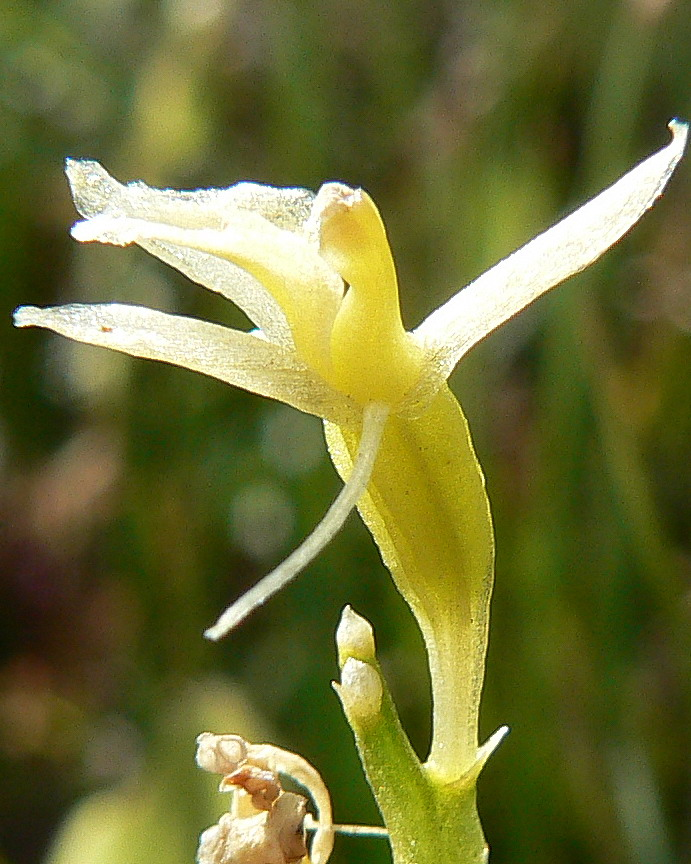 Liparis loeselii, Texel, the Netherlands